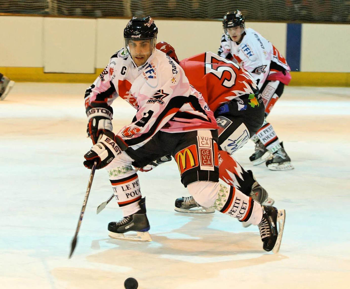 Hockey match Ligue Magnus France 4-10-08. Neuilly-sur-Marne v Amiens